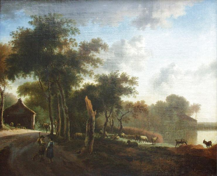 Landscape with shepherdslabel QS:Len,"Landscape with shepherds"label QS:Lpl,"Pejzaż z pasterzami"